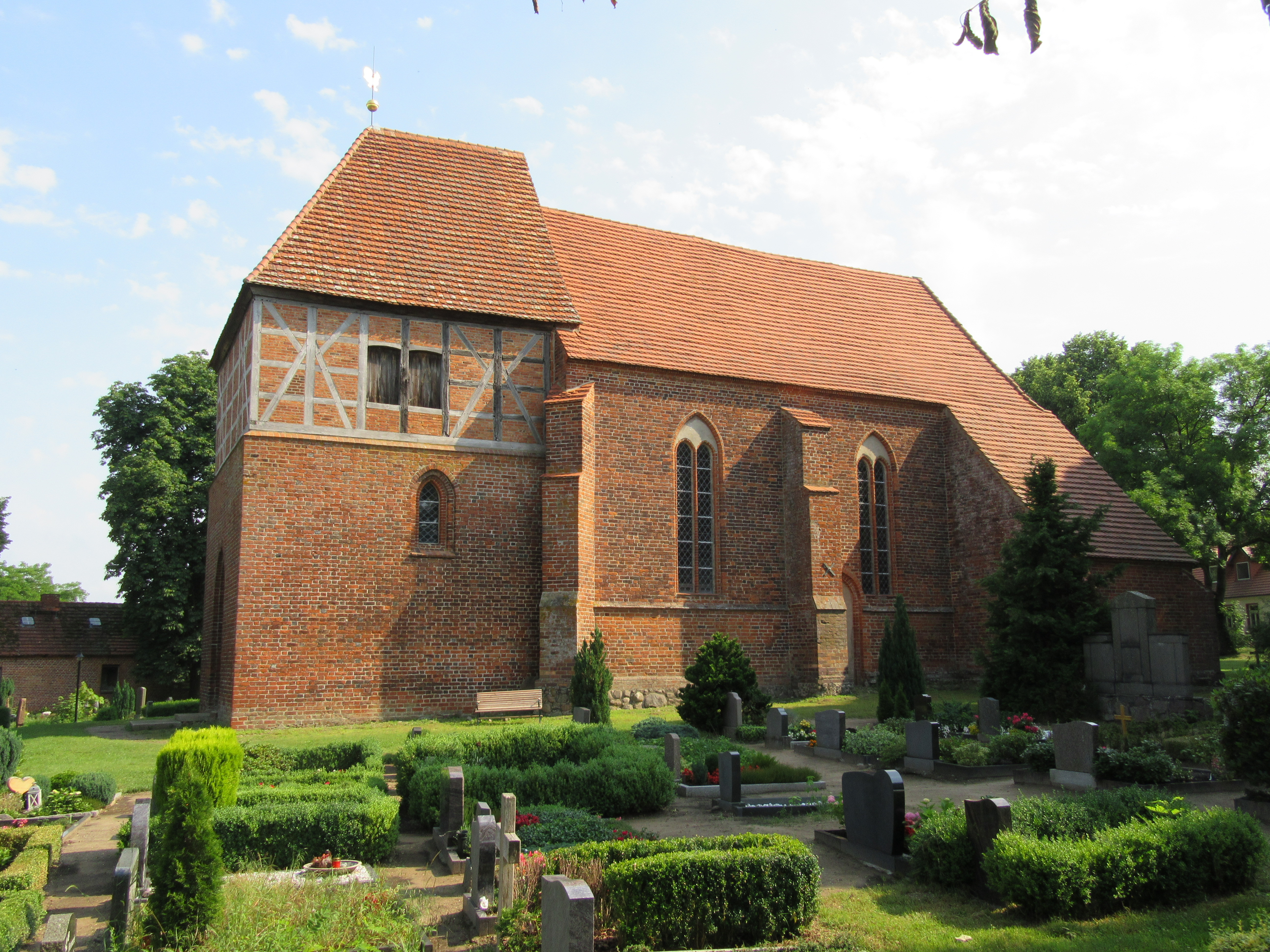 Church in Retgendorf